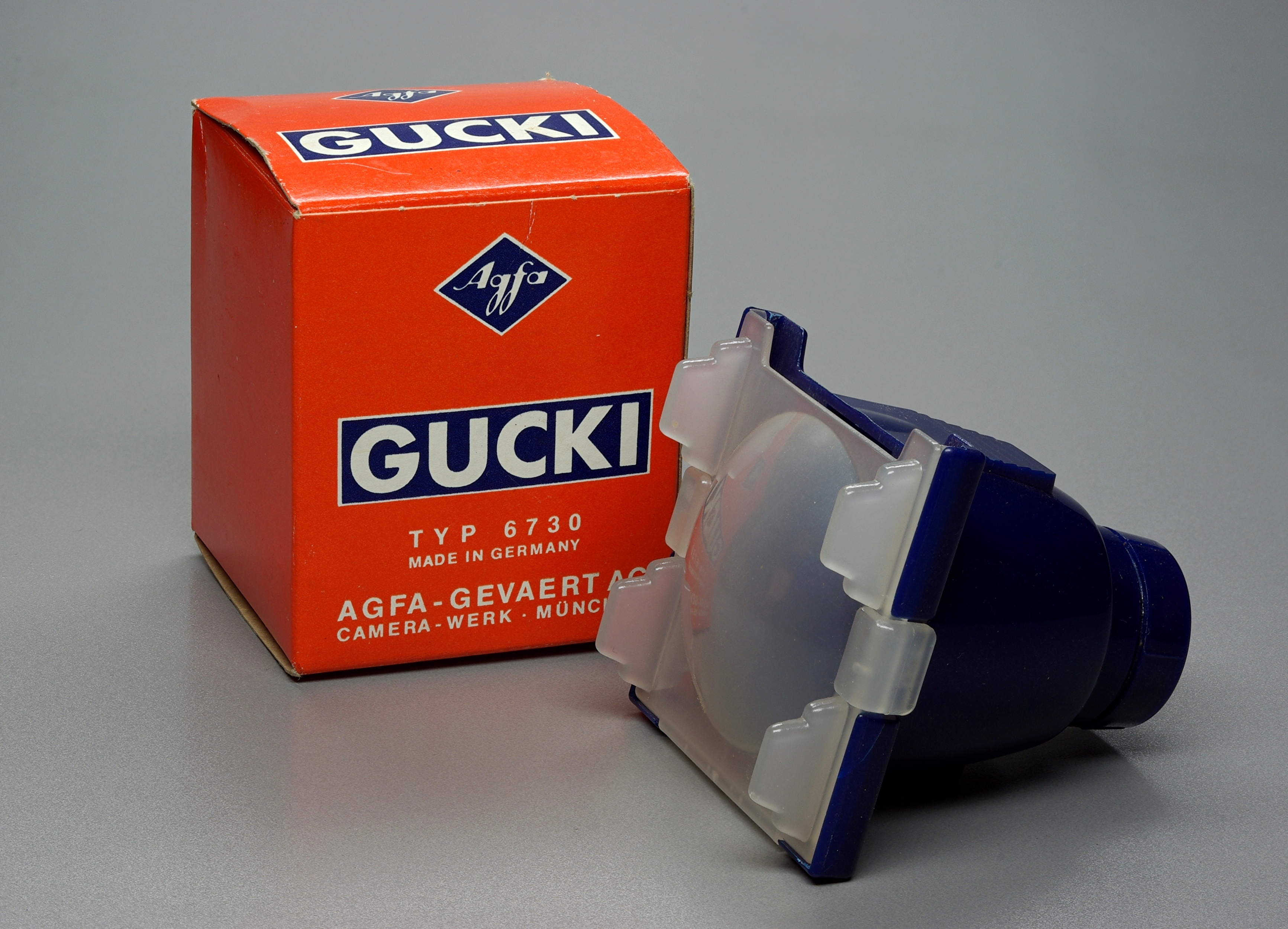 Slide viewer Agfa Gucki, about 1960